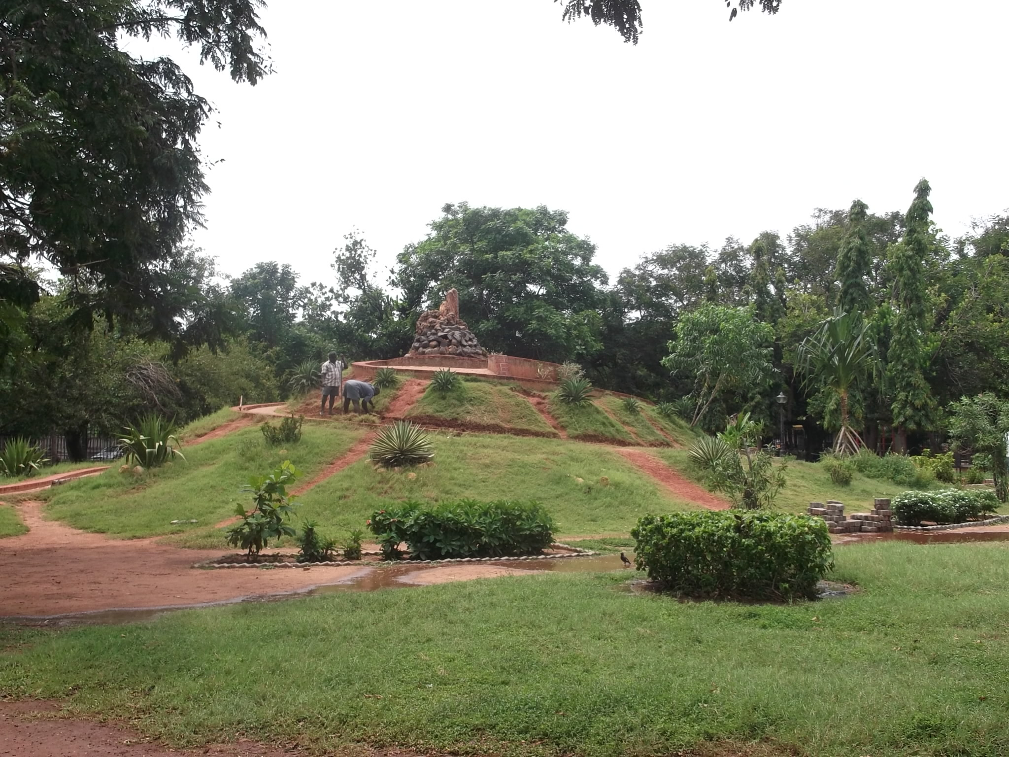 Being a former French colony, Pondicherry retains the quintessence of French flavor which can be evidently seen in the French-styled colonial architectures that surrounds and adorns this spectacular Indian Union territory. The Government Park in Pondicherry is an able carrier of this essential French architectural brilliance.